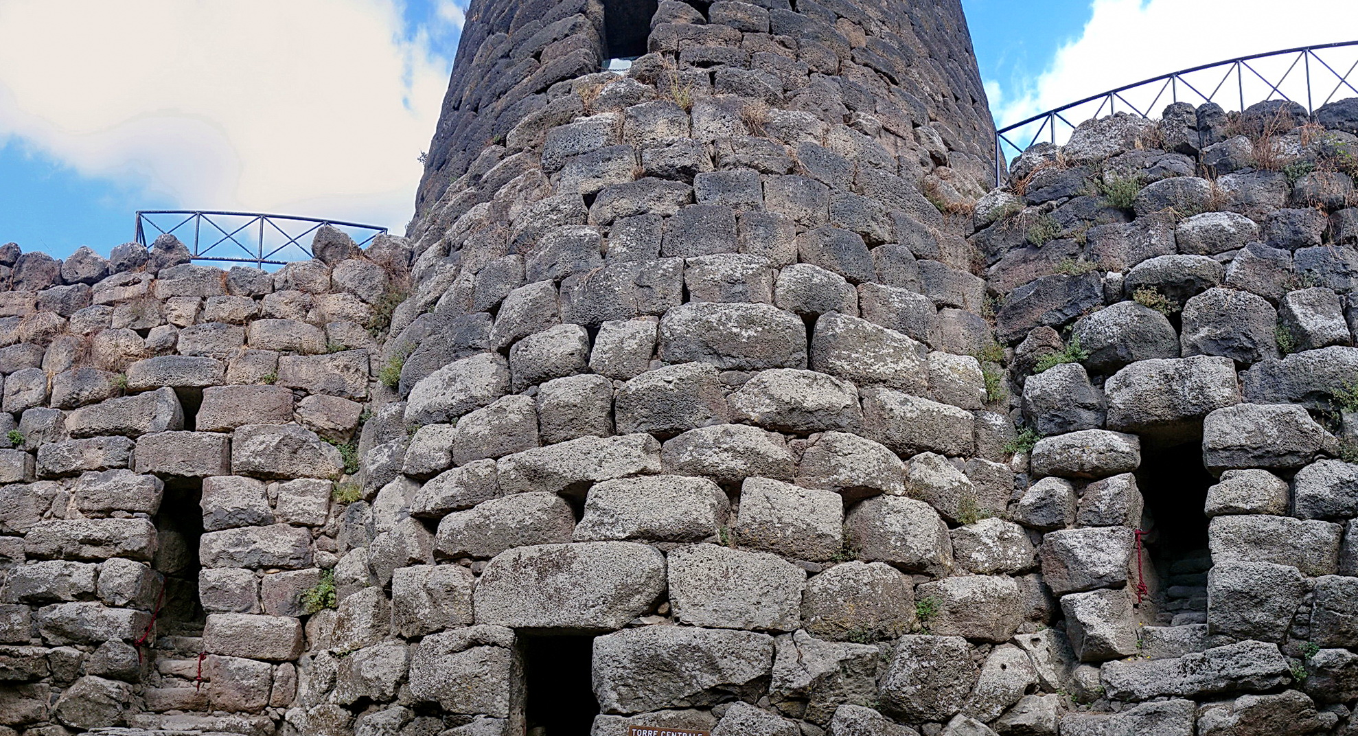 Nuraghe in Barumini-su nuraxa